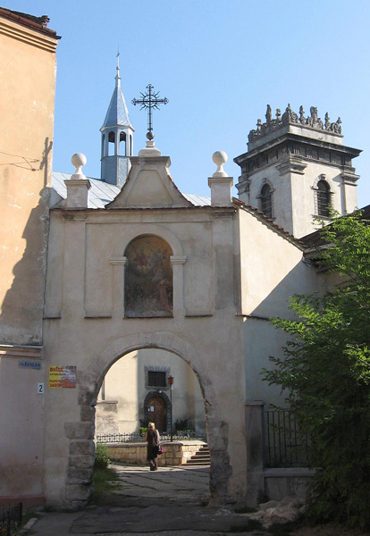 Church and convent of Benedictines, Lviv. Gate